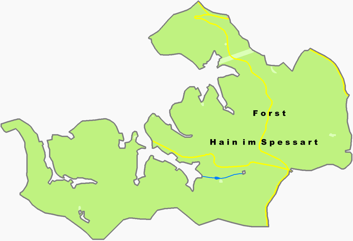 Unincorporated area Forst Hain im Spessart Grassland, Meadow Settlement area Body of water Forest Municipal border Main street